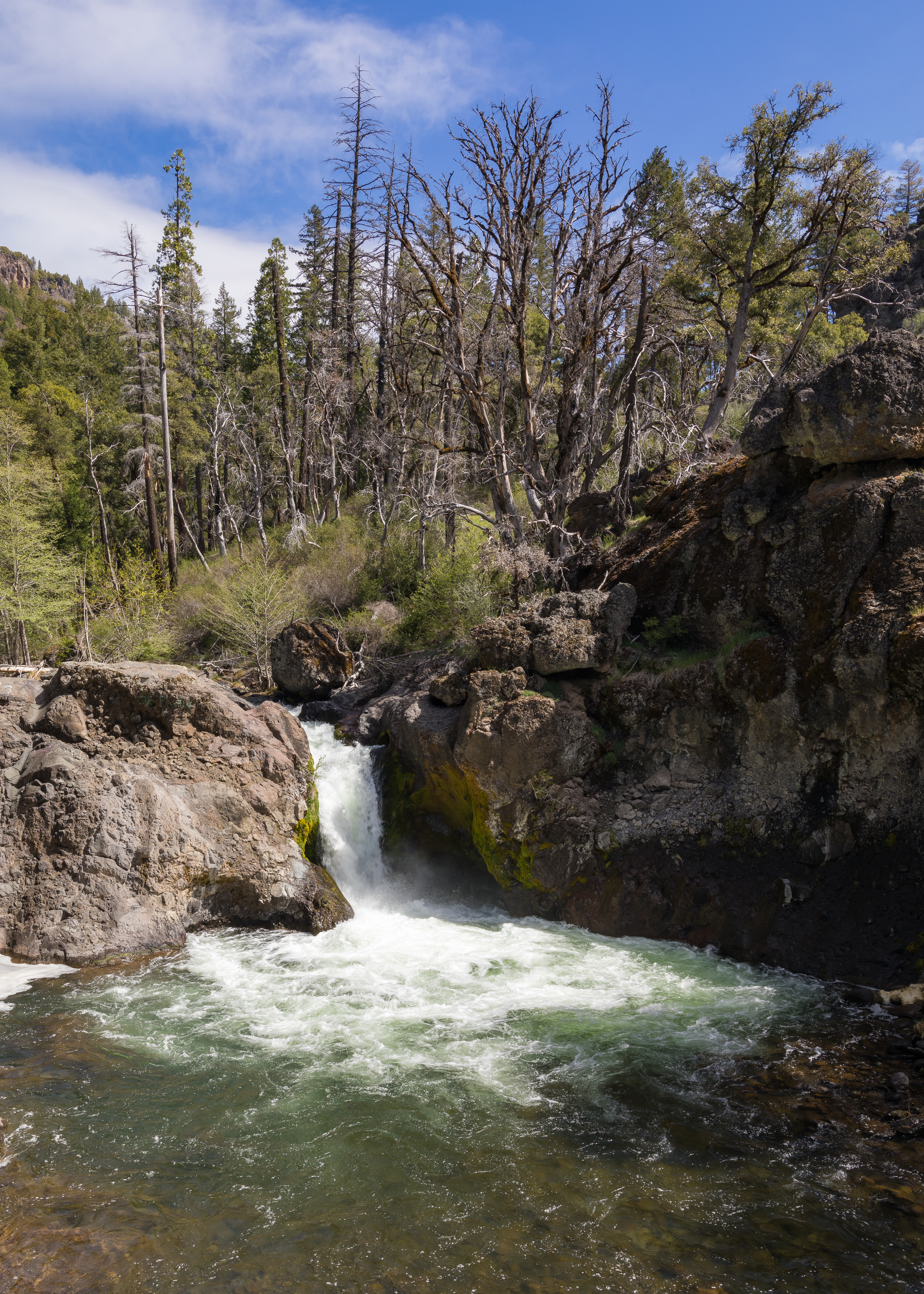 Upper Deer Creek Falls is a punchbowl-style waterfall of 18 feet in height, located in Lassen National Forest, just off of Highway 32